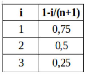 Povecanje stepena krive